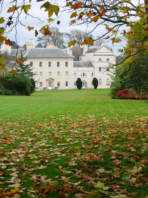 Saltram House The west front of this Adam house framed by autumn colours.